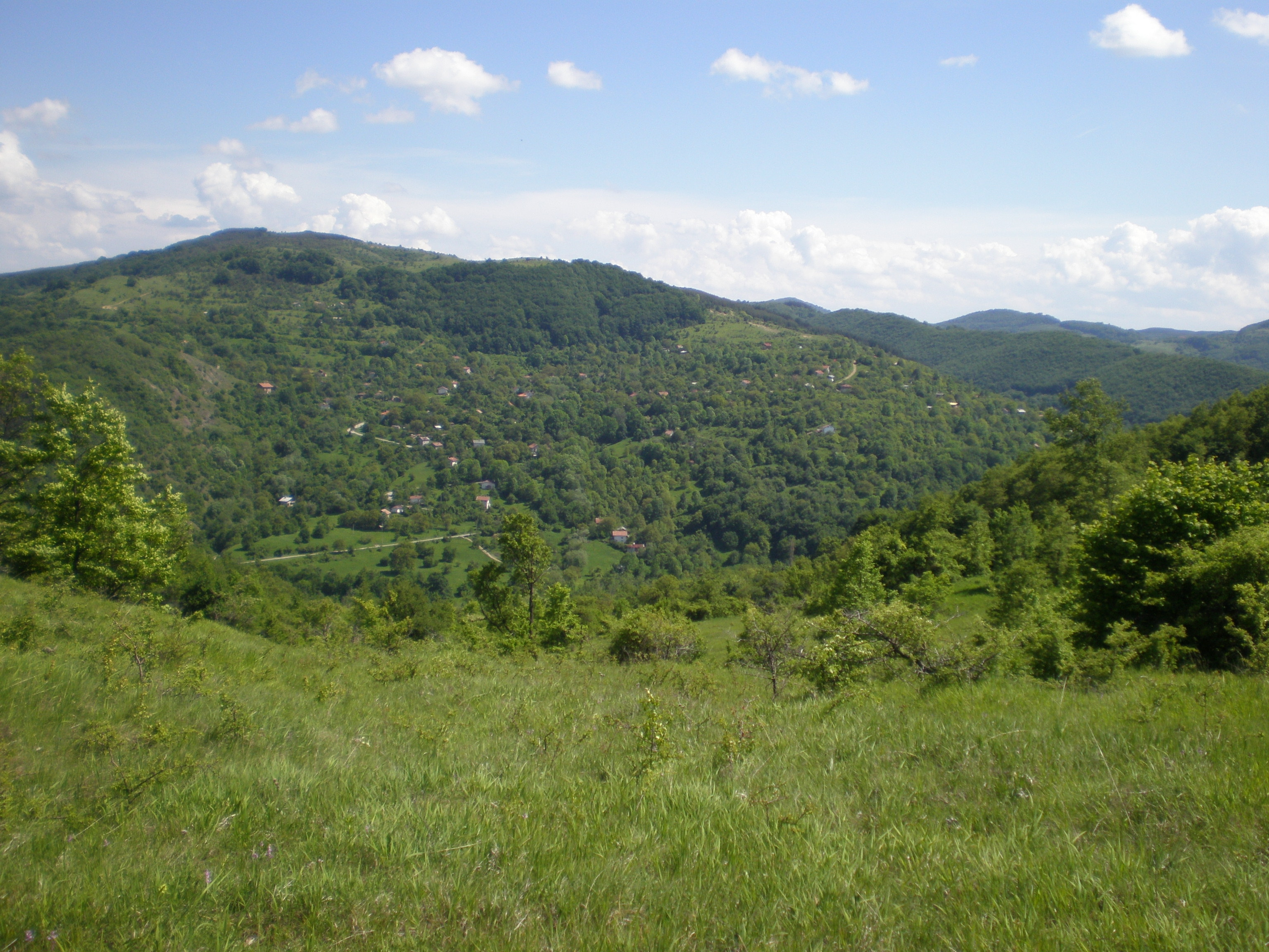 Chekanets village, Sofia oblast, Bulgaria